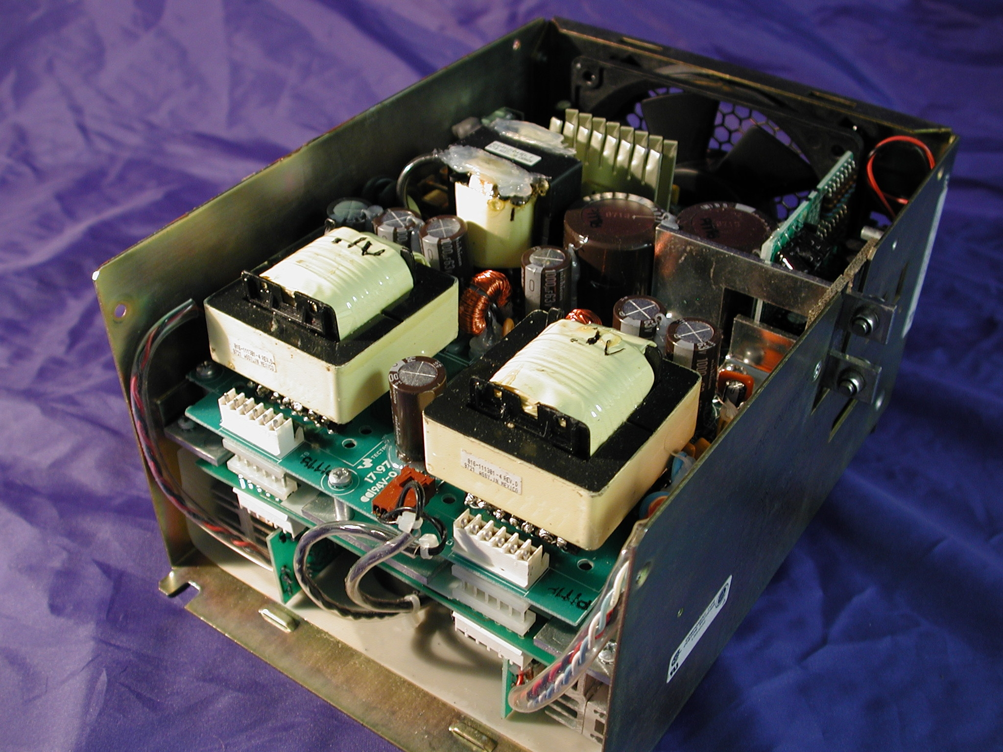 A Modular Power Supply for a 1KW Xenon Short-Arc Lamp, protective cover removed.